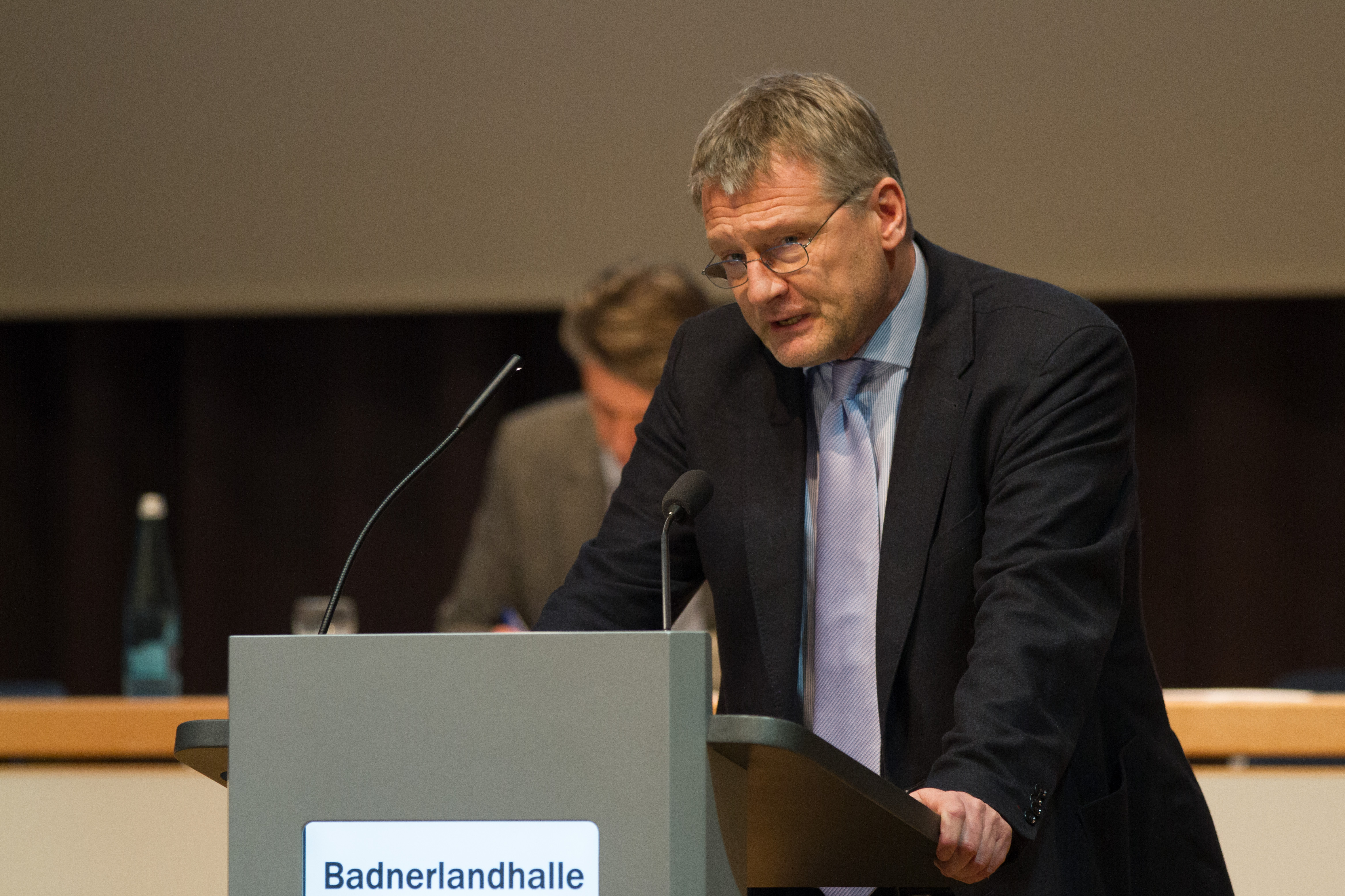 Series: 6th party convention of the AfD Baden-Württemberg in Karlsruhe-Neureut on January 17th and 18th, 2015. Image: Jörg Meuthen